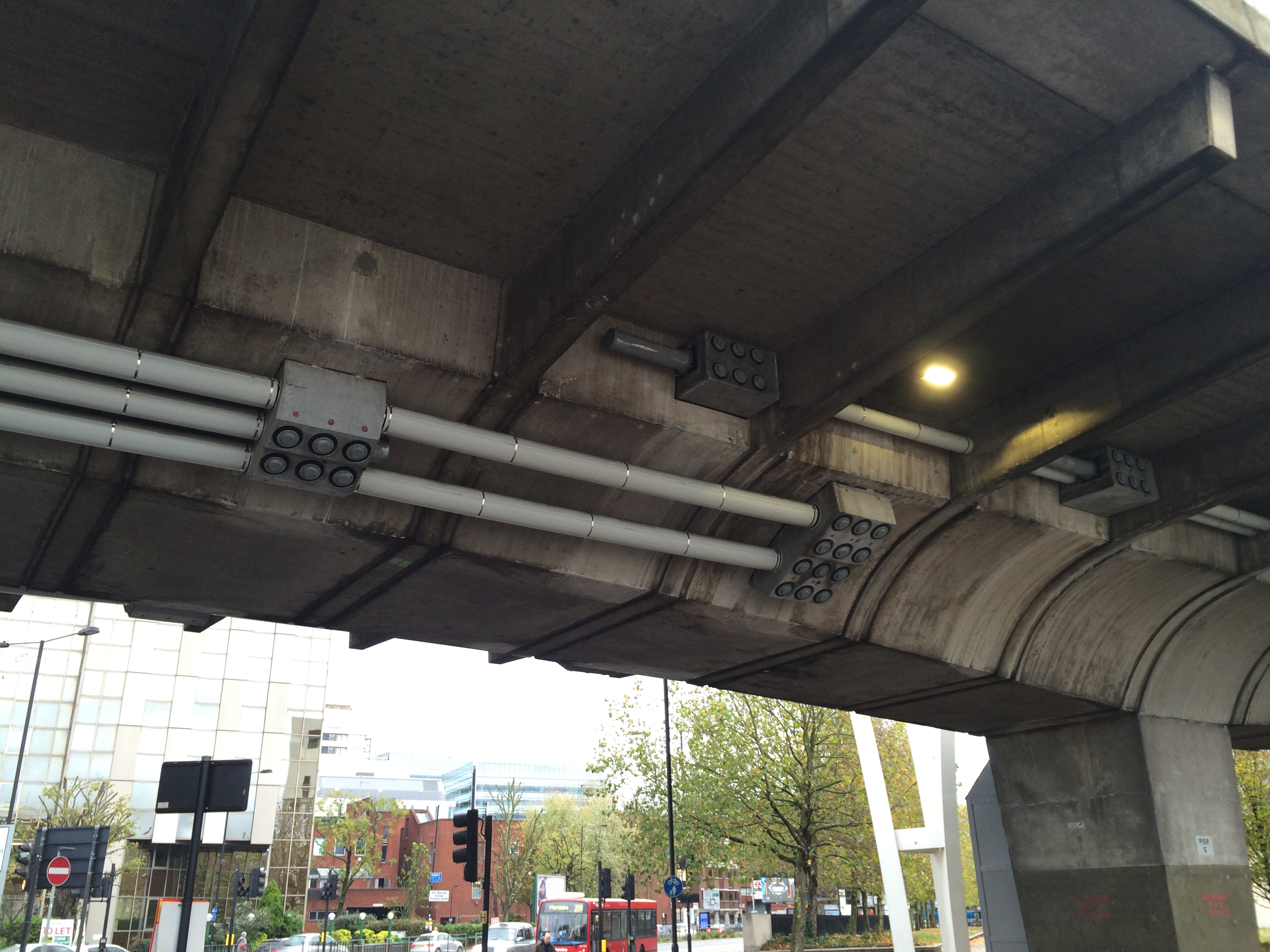 Underside of the Hammersmith Flyover overpass in London showing bolts added to repair the structure, following the discovery of severe internal corrosion to the original tension cables that held the structure together